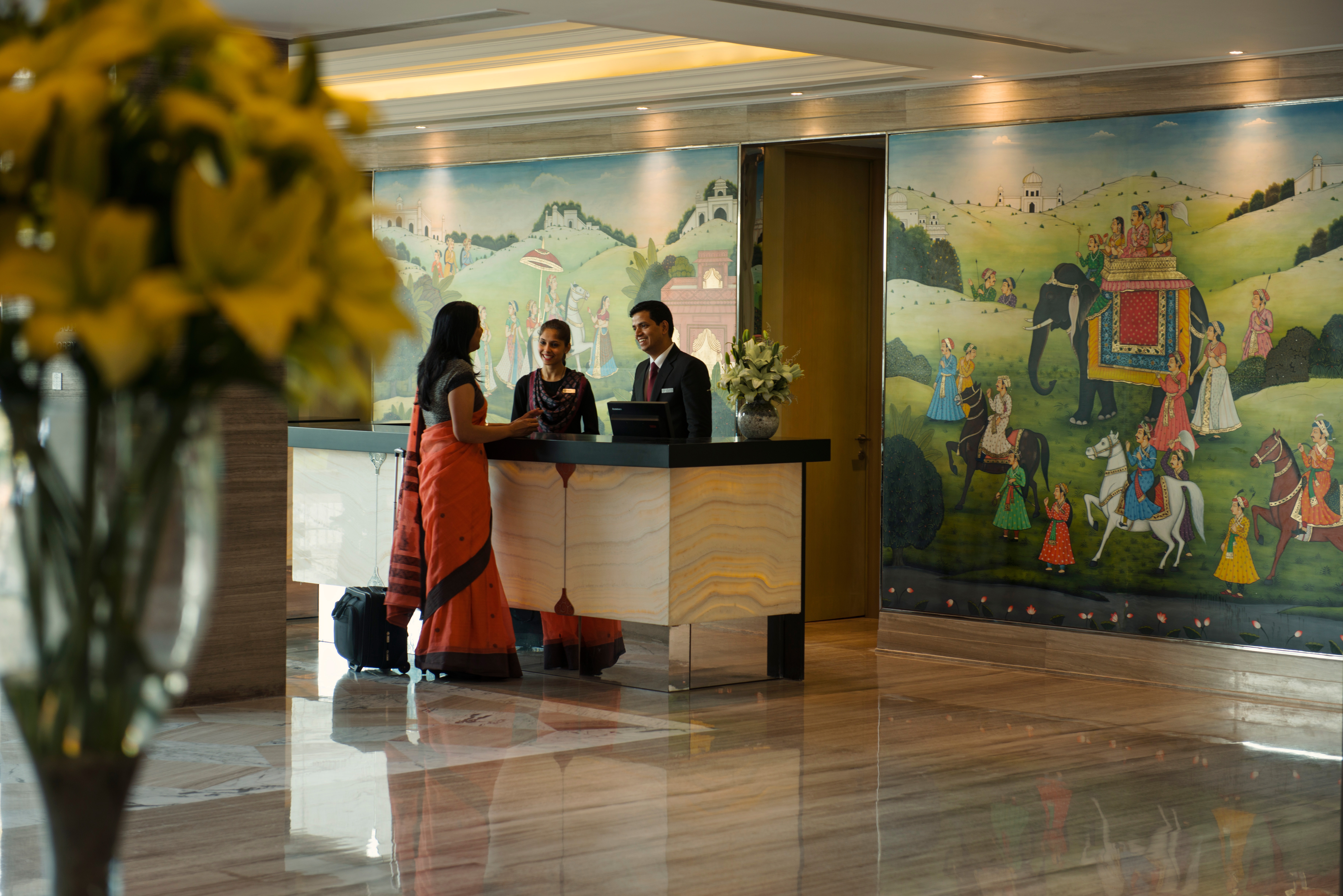 Hotel Lobby